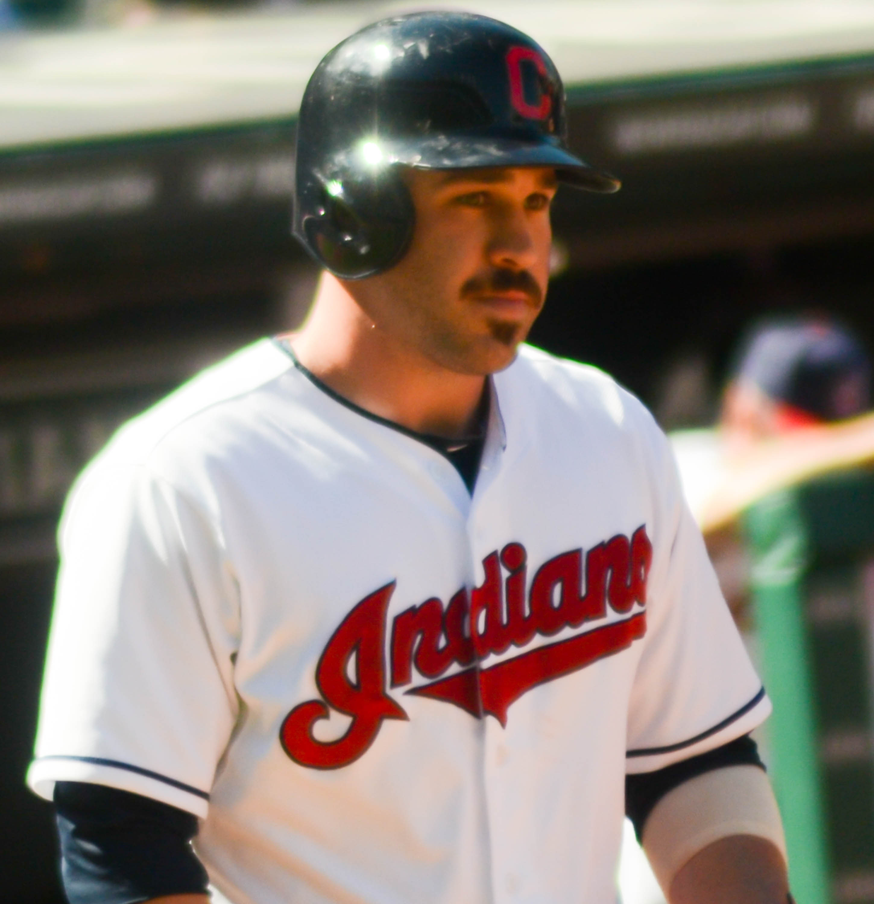 Cleveland Indians vs. Los Angeles of Anaheim